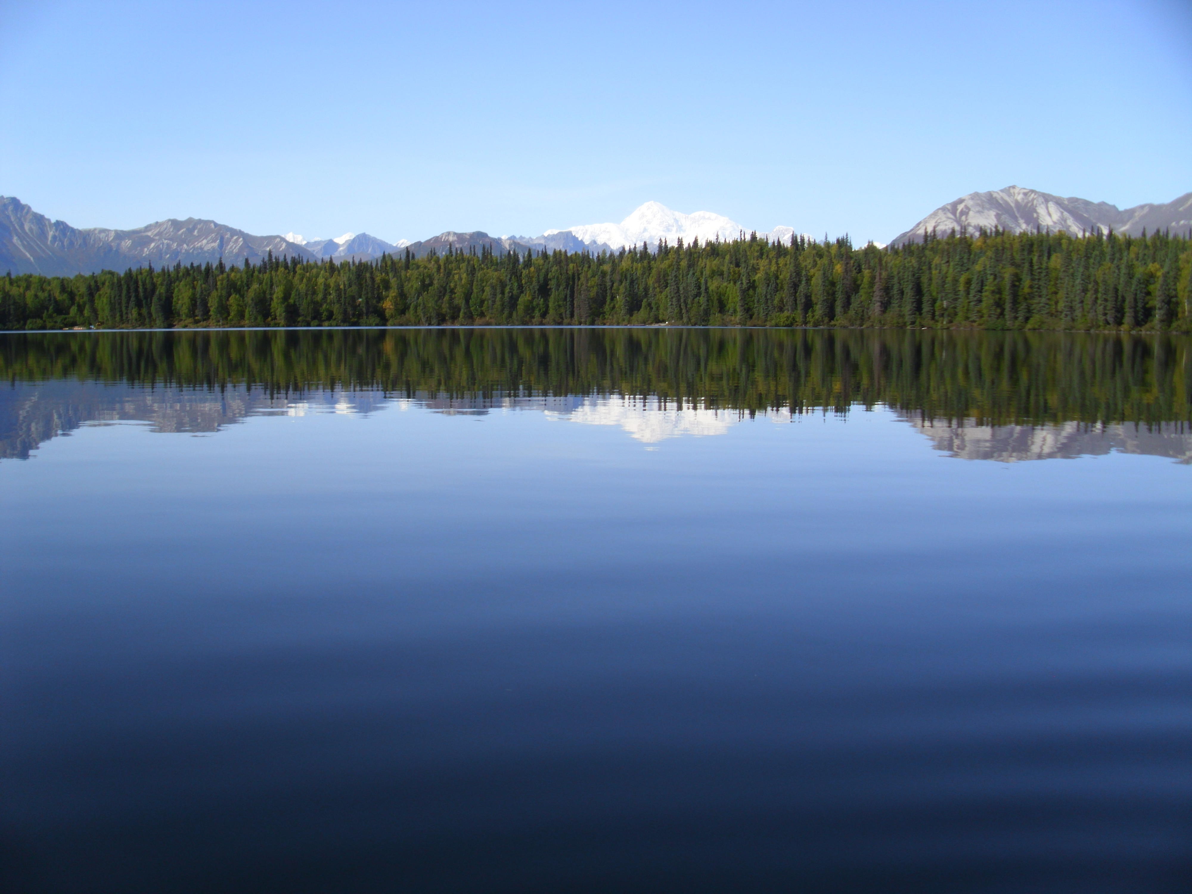 Denali, highest point in North America, seen from Beyers Lake, Denali State Park, Alaska